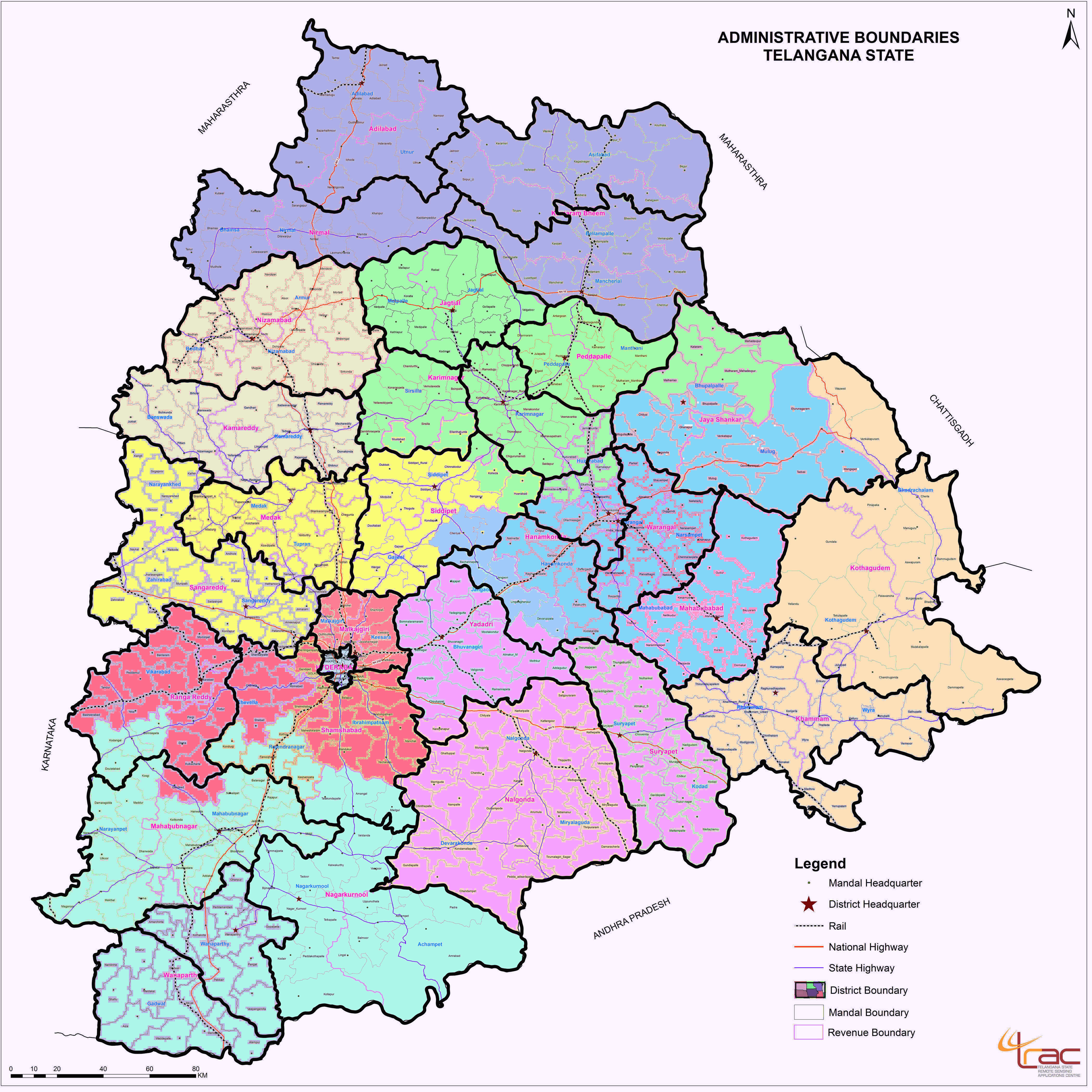 New districts in black outline. Old districts are color coded. The boundaries of the new and old districts are accurate. The names of some of the districts are not.